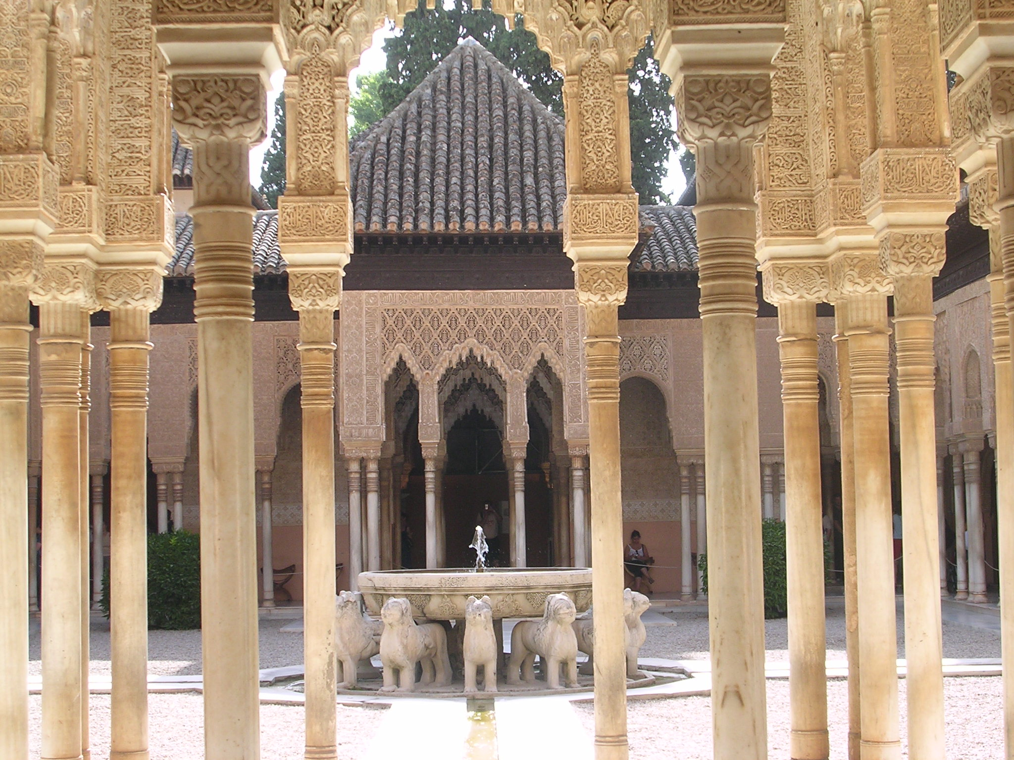 Granada, Spain